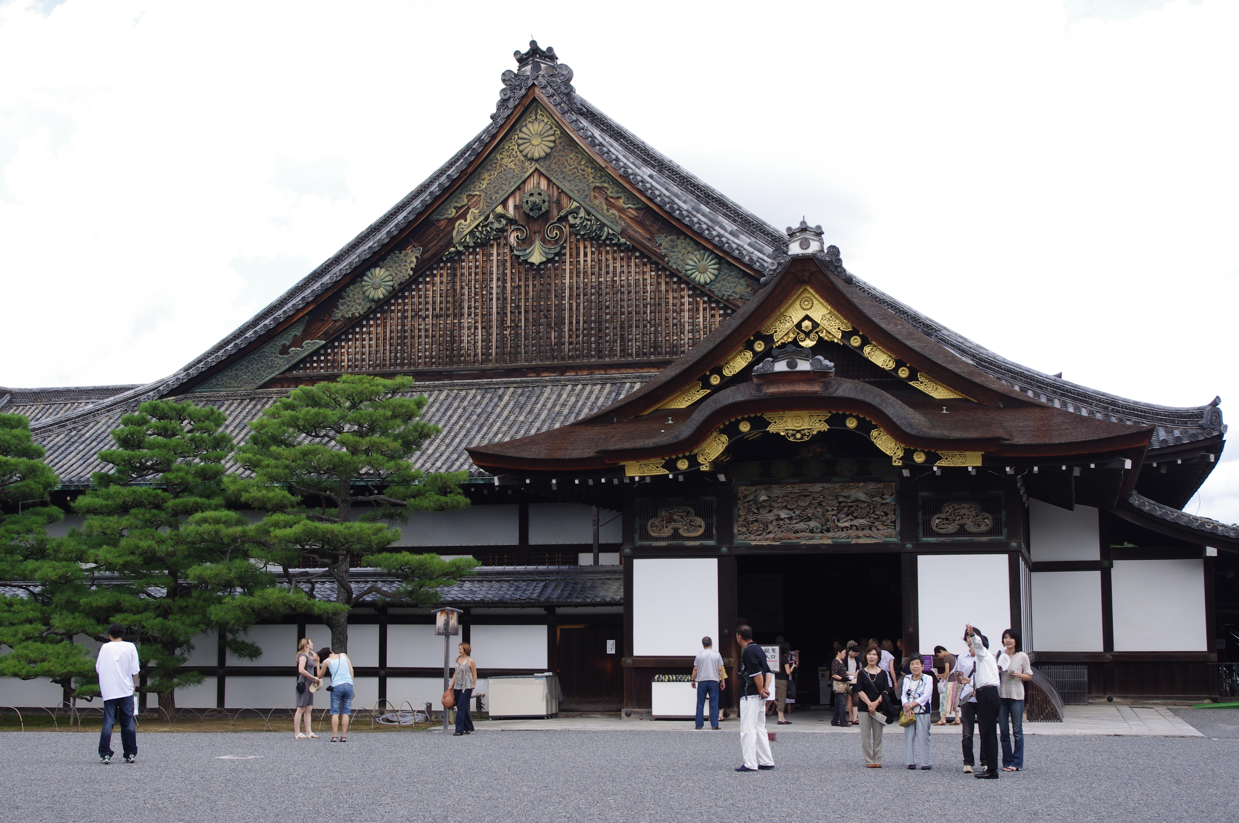 Nijō Castle in Kyoto